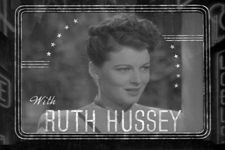 Philadelphia Story